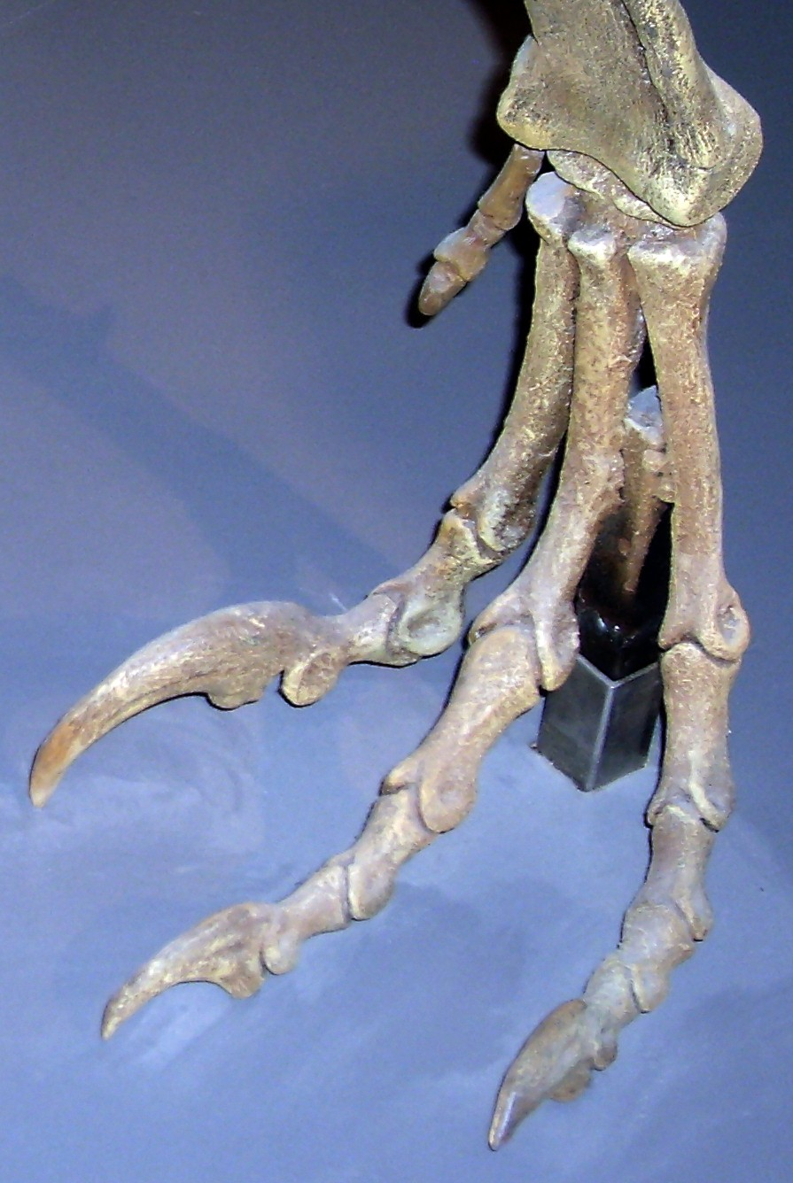 Cast of Deinonychus foot bones. Zoological Museum, Copenhagen.